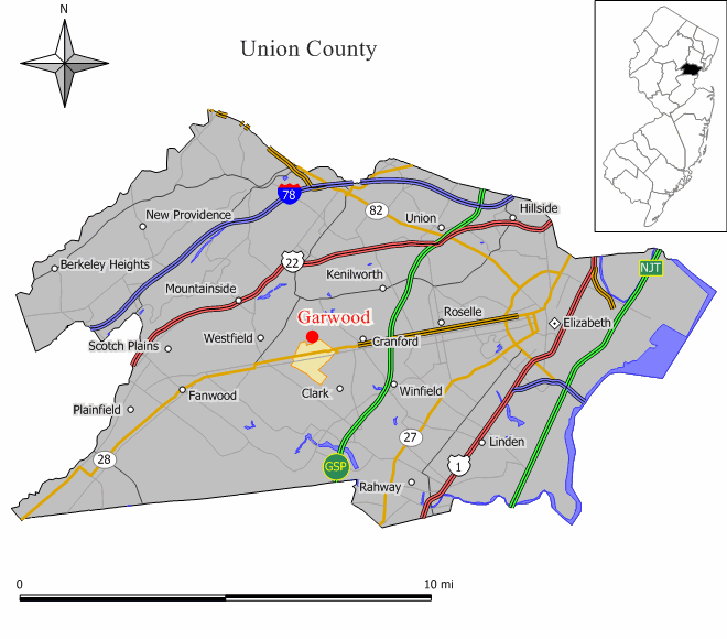 Source: Jim Irwin Original work by Jim Irwin, December 2005.